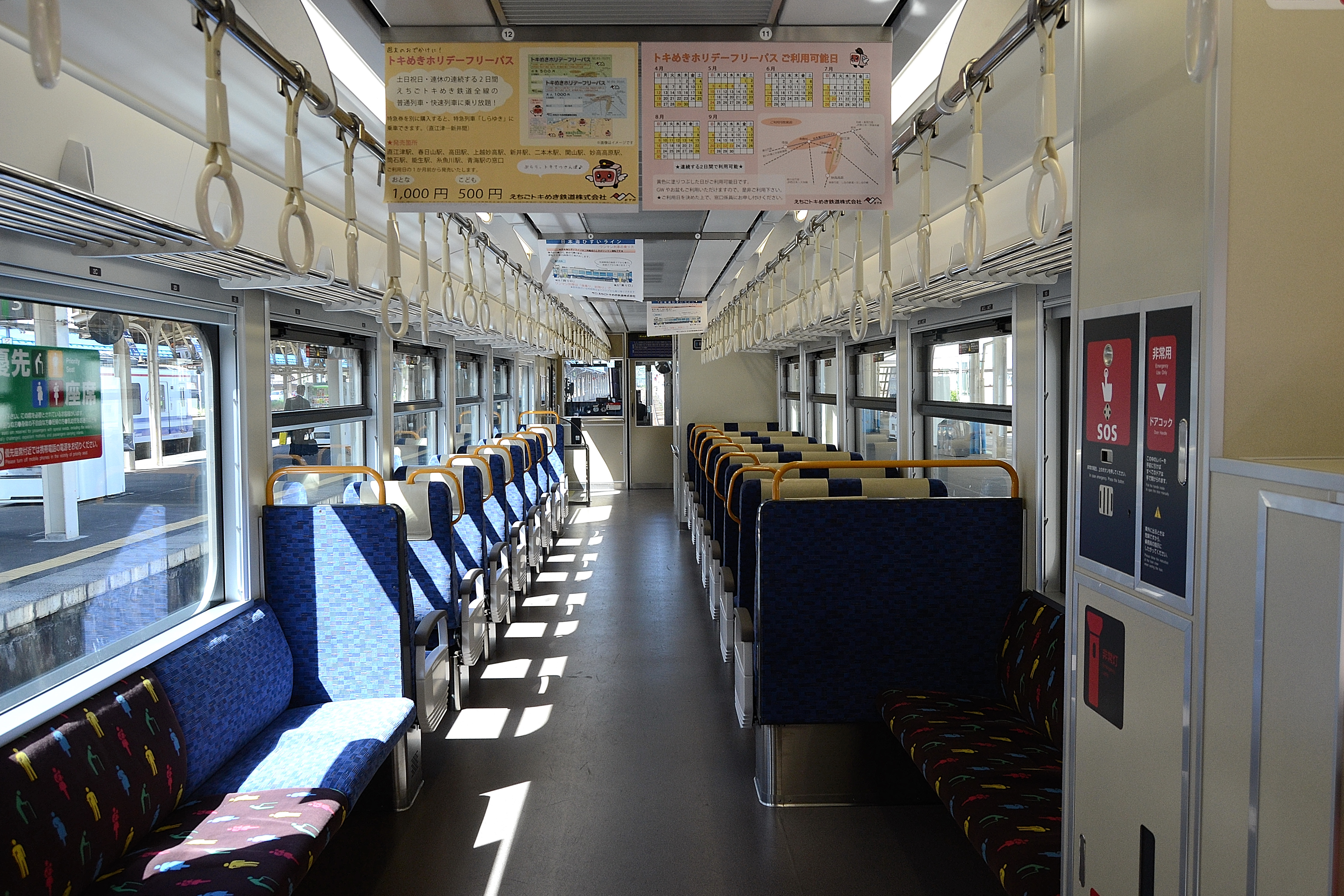 The interior of an Echigo Tokimeki Railway ET122 series diesel car